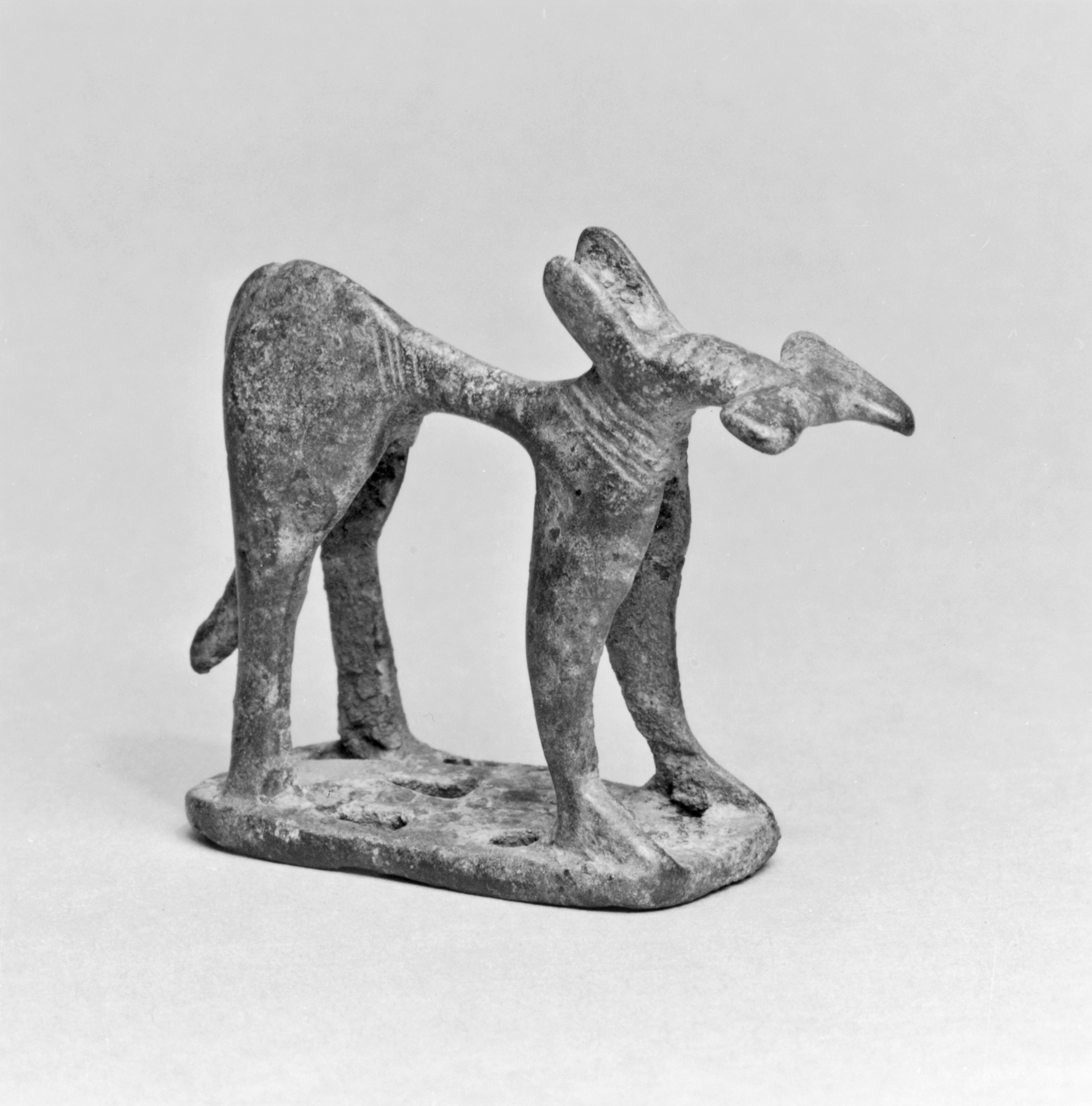 Animals were a popular motif in the Geometric period. The image of a wild animal capturing a domestic one, such as a wolf seizing a lamb from the flock, is a typical late Geometric theme.